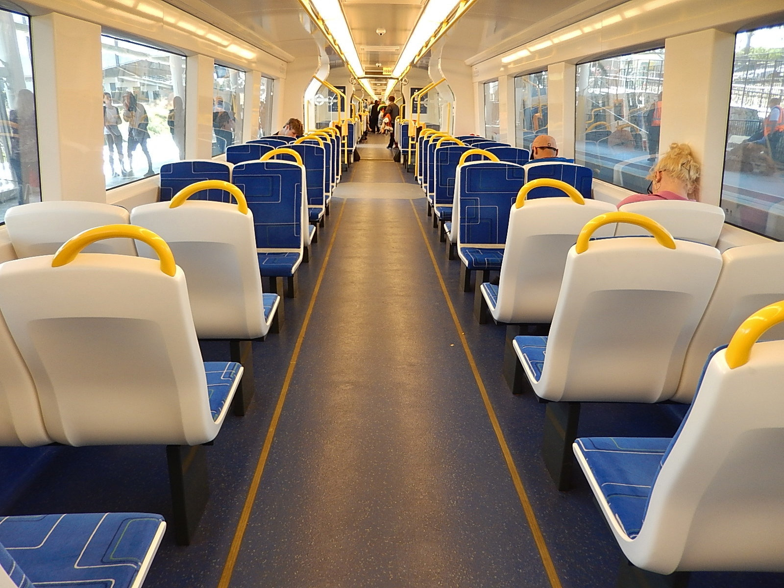 Interior of a 4000 Class EMU.